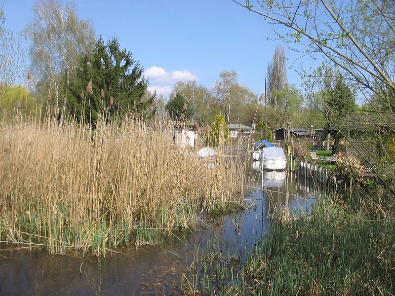 Settlement of weekend cottages at Toter Mantel (Havel back water) in the Tiefwerder Wiesen. Tiefwerder is a former village, founded in 1816, in Berlin-Spandau and an ait in Berlin-Wilhelmstadt from river Havel. The Tiefwerder Wiesen (meadows) are a protected area (german: Landschaftsschutzgebiet) and Berlins last natural flood plain and last spawn-area for the Northern pike.